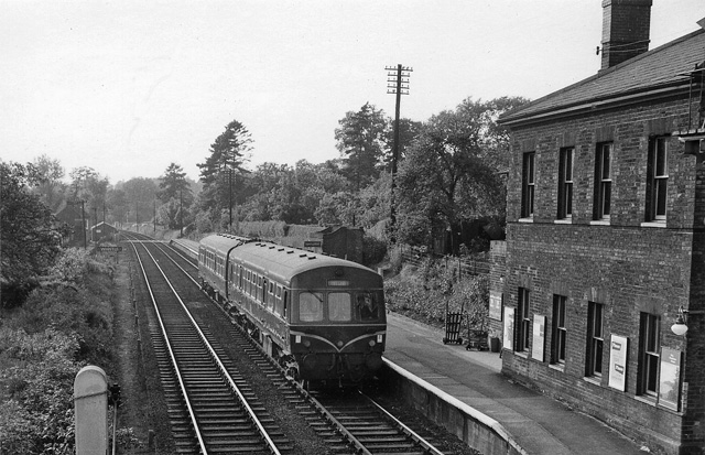 Brundall Station, with train. View westward, towards Norwich; ex-Great Eastern Norwich - Yarmouth (Vauxhall) and Lowestoft line. This is the Down platform, with a first-generation DMU arriving; the Up platform was behind camera. (See also TG3207 : Brundall Station)